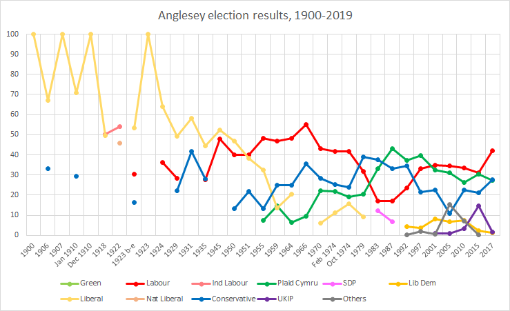 Anglesey election history